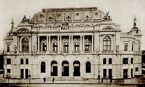 Warsaw Philharmony edifice.